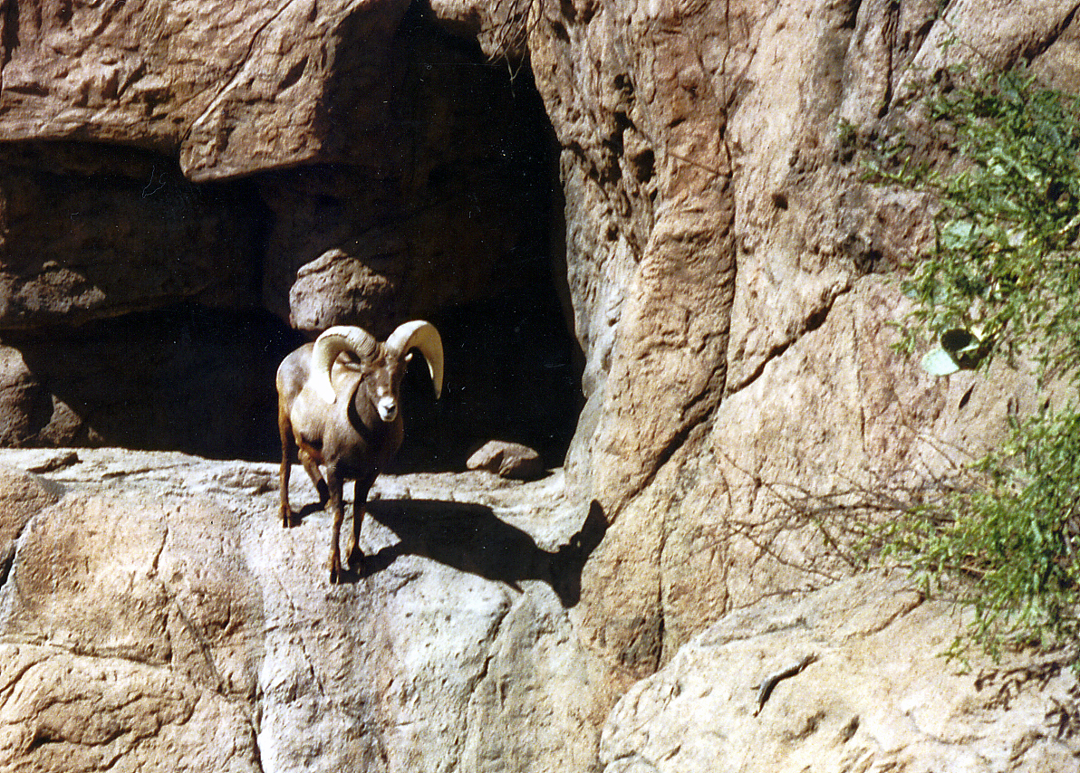 Bighorn in Cabeza Prieta, 1996